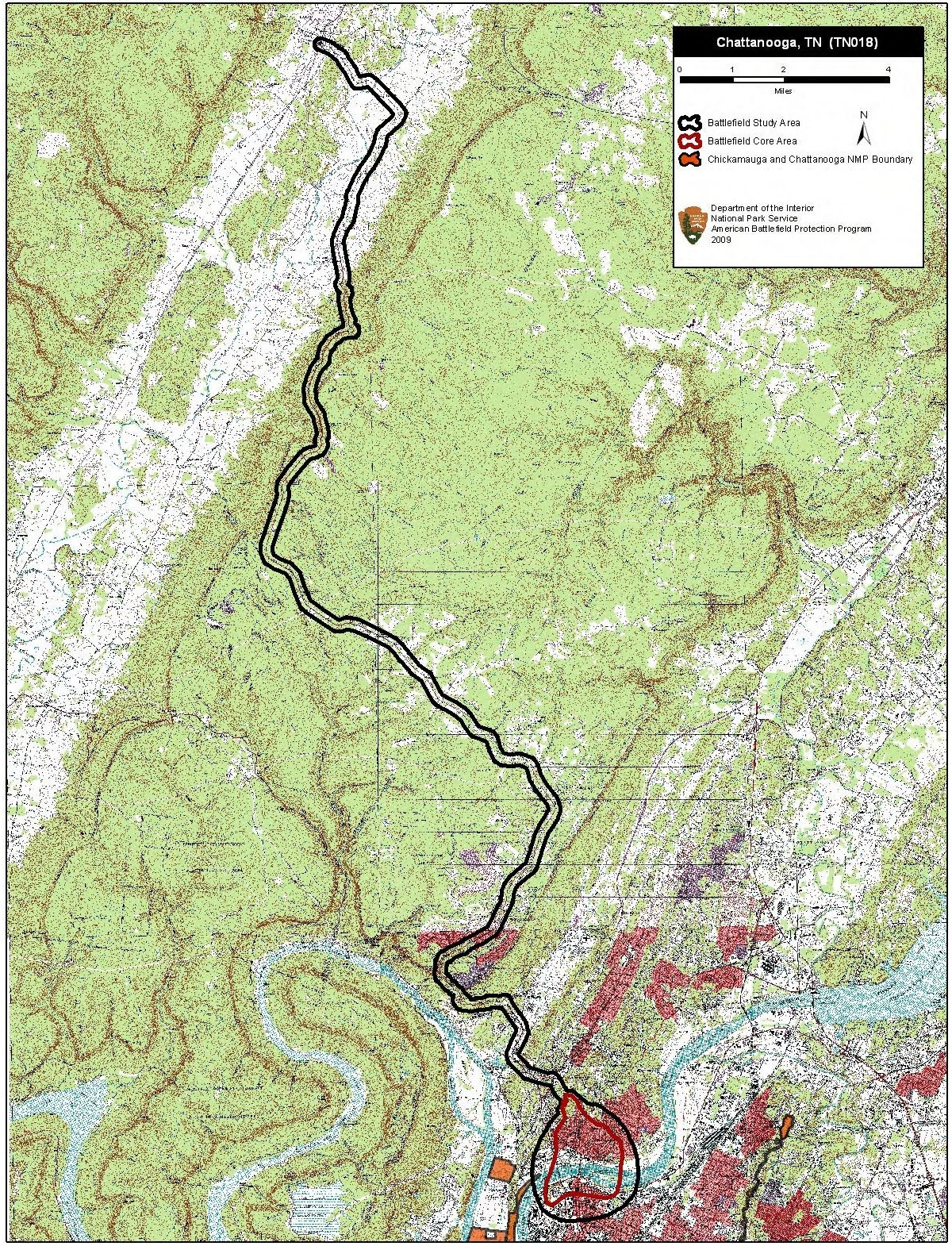 Map of battlefield core and study areas. The revised Study Area includes the lengthy Federal approach route. Core Area was expanded slightly to take in the entire area of bombardment.